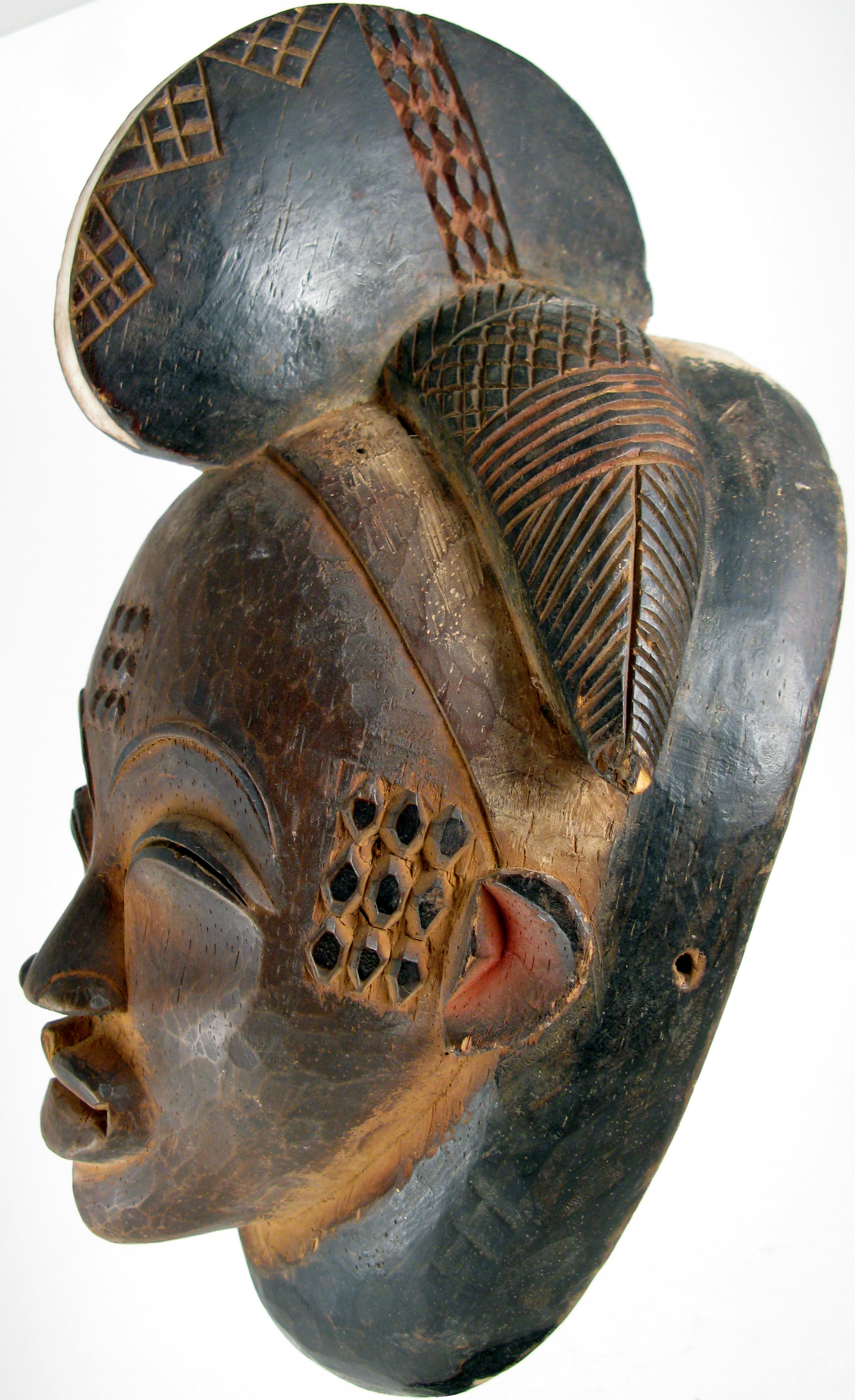 Beautiful okuyi dance mask from the Punu People of Gabon. Measures 32x20x16cm If you double click an image, click the actions tab then scroll to view all sizes you will be able to view large full size images Further information or more images of individual pieces please contact us with image number: Ann Porteus Sidewalk Tribal Gallery 19-21 Castray Esplanade, Battery Point 7004 Hobart Tasmania Australia t: 613 6224 0331 ABN 99 900 255 141